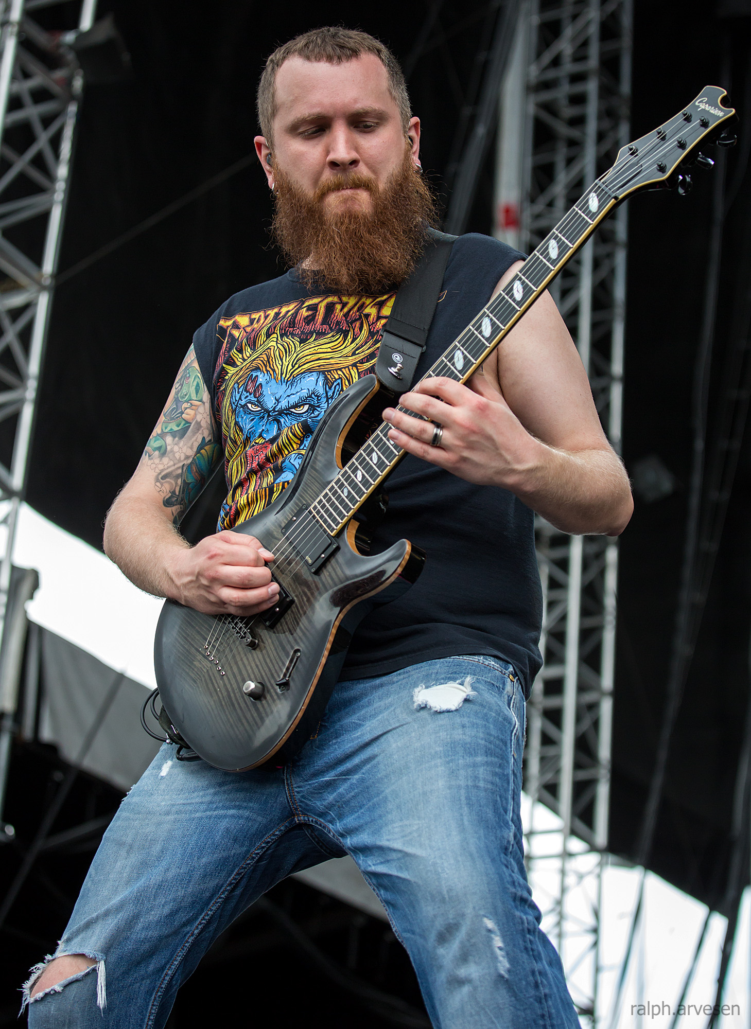 Killswitch Engage, San Antonio, Texas, 2014